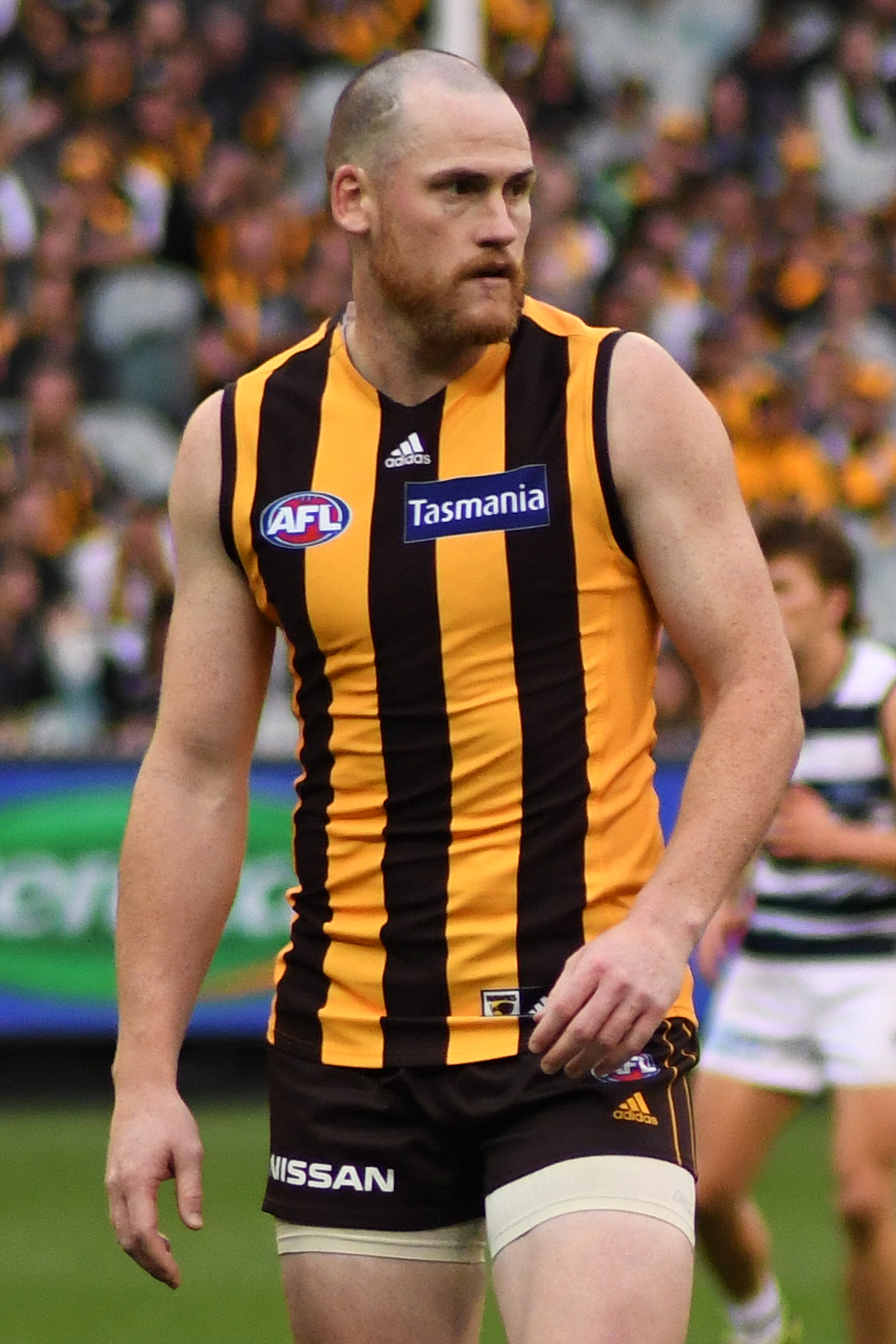 Jarryd Roughead of Hawthorn during the 2019 AFL round 5 match between Hawthorn and Geelong at the Melbourne Cricket Ground on Monday, 22 April 2019 in Melbourne, Victoria.